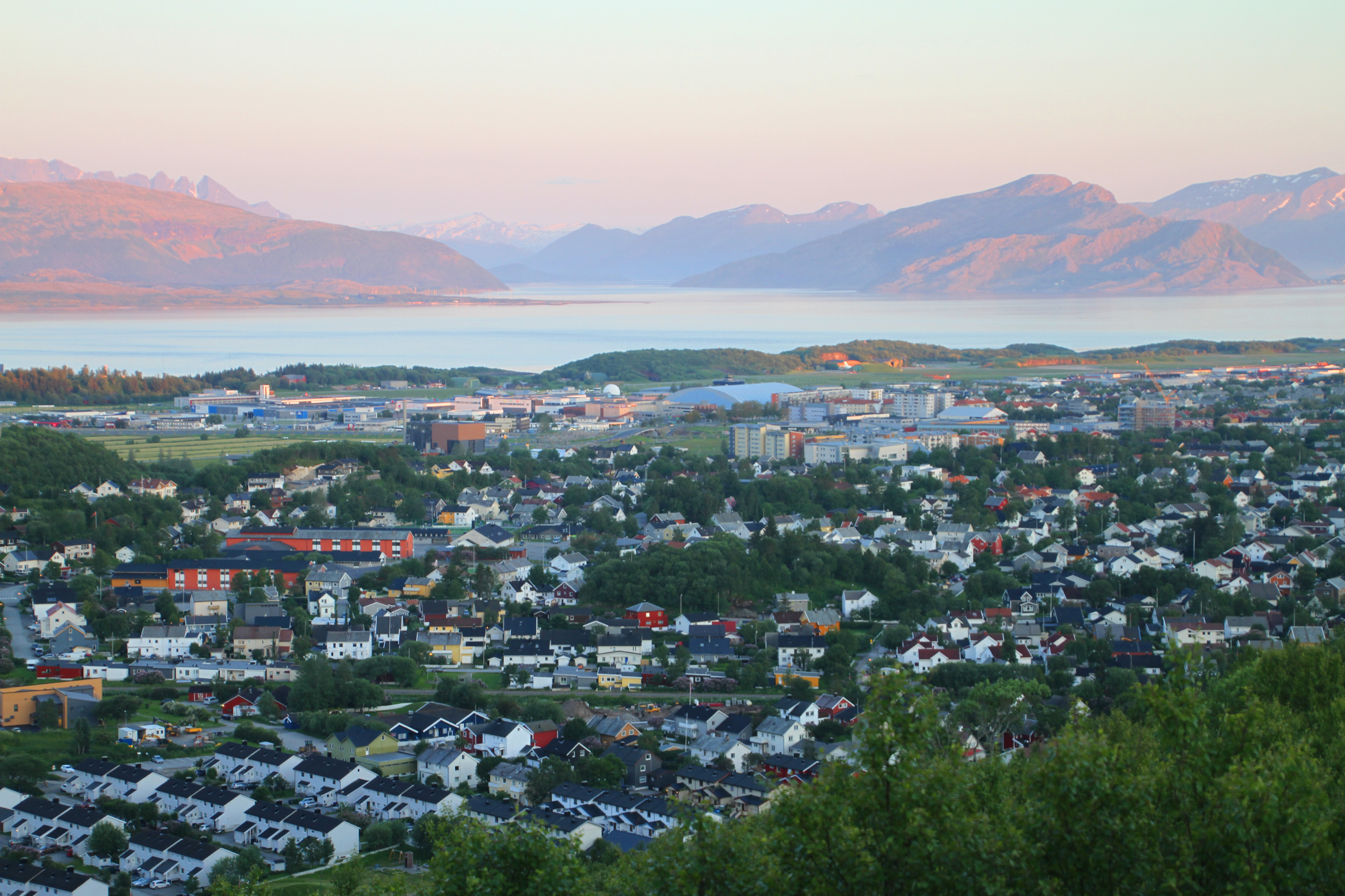 Panoramic of Bodø